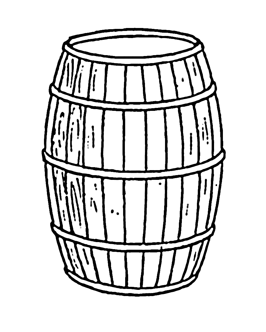 Line art drawing of a barrel.